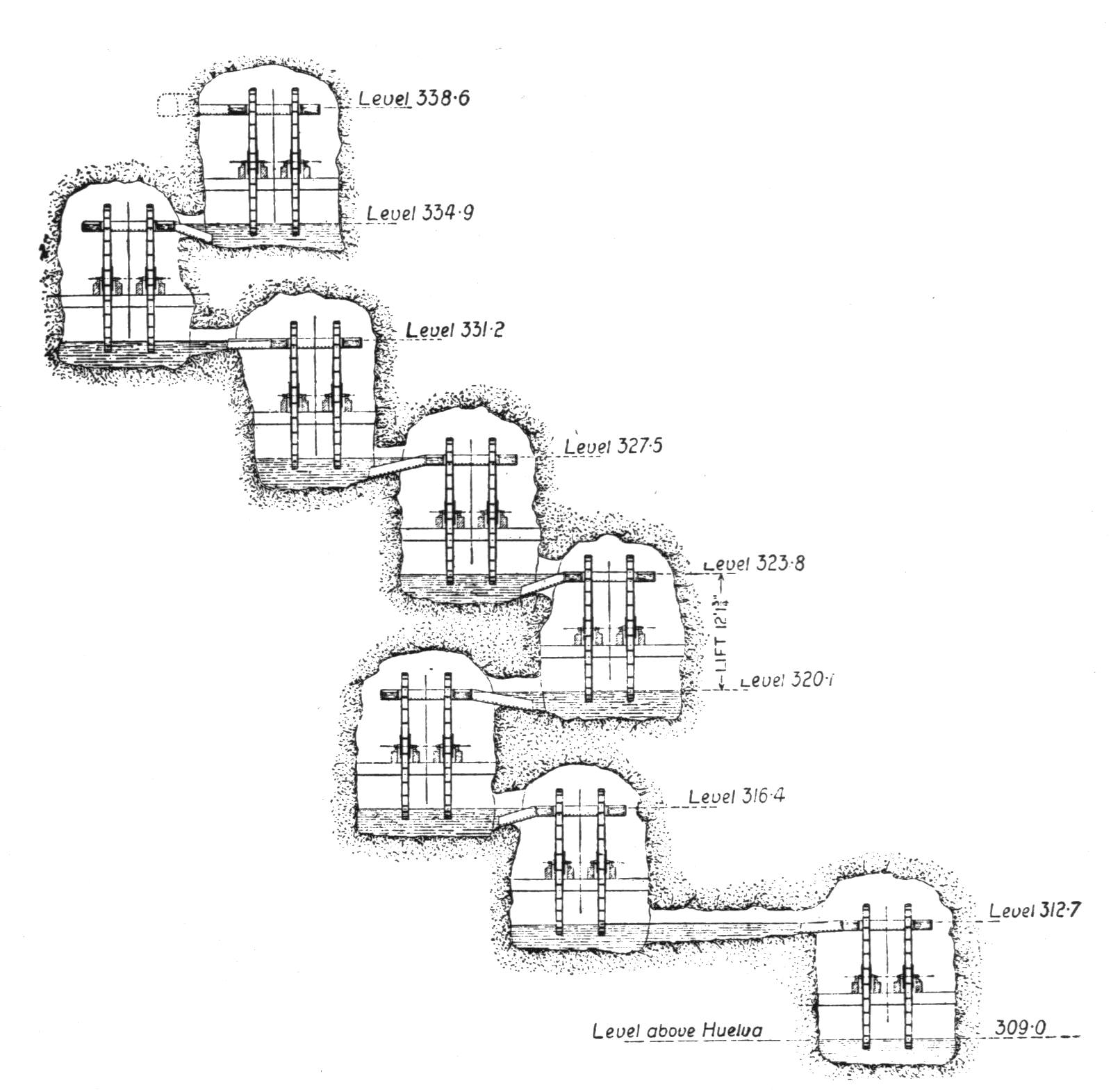 Sequence of wheels found at Rio Tinto mines, Andalusia, Spain. Ancient Roman mine's drainage system.